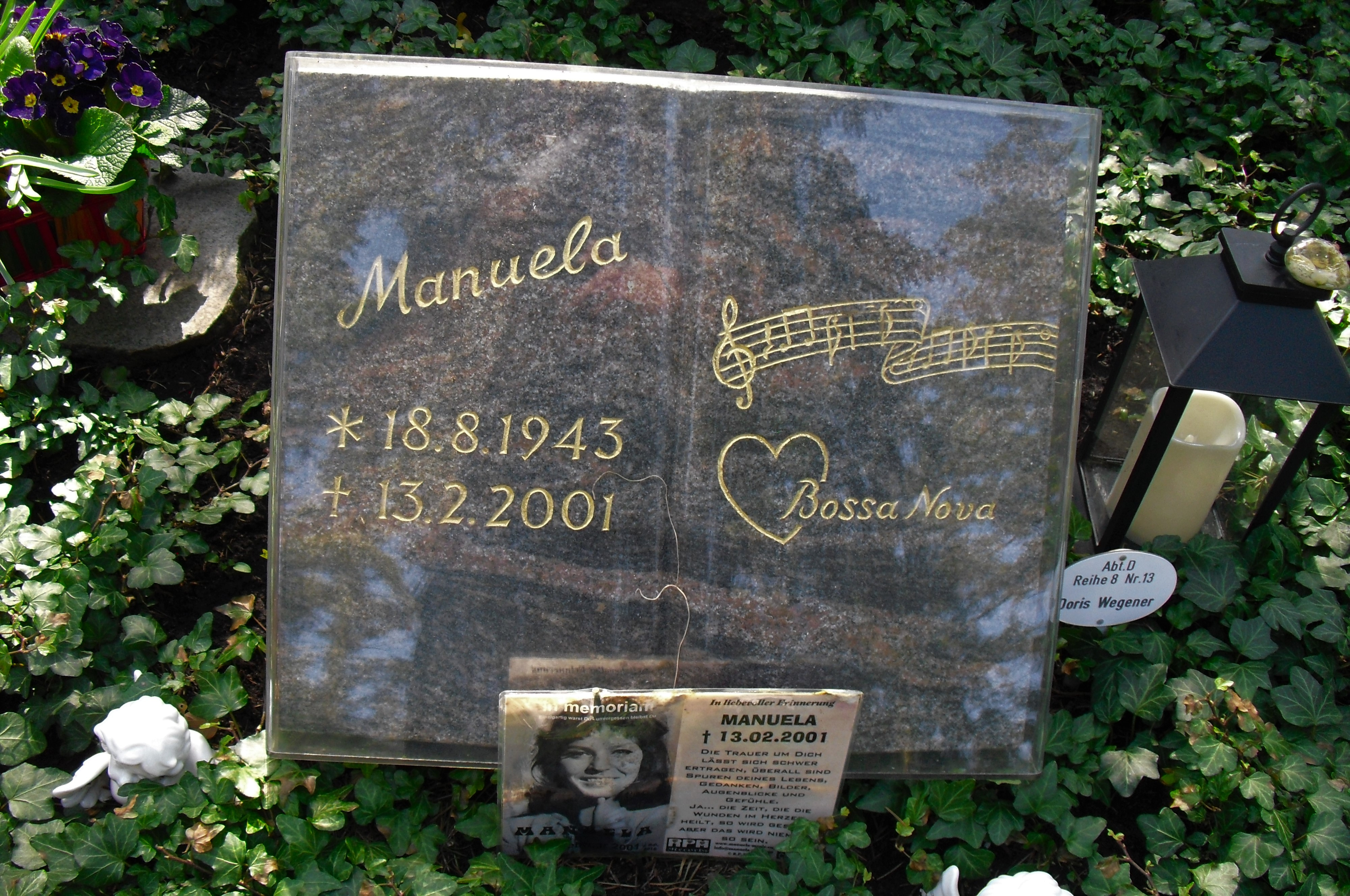 Grave of German singer Manuela in Martin-Luther-Kirchhof (Berlin-Tegel)